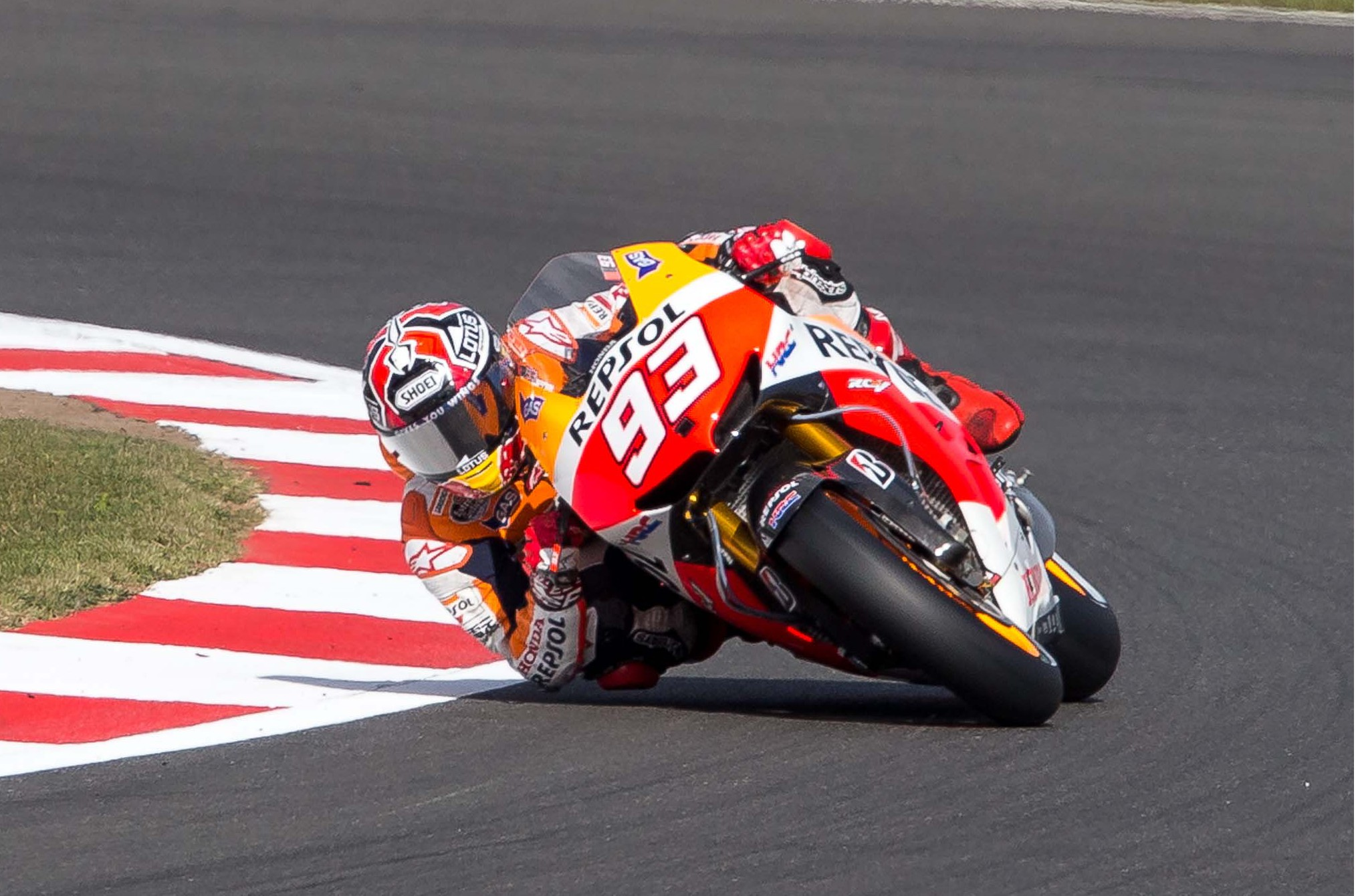 MotoGP Practice Silverstone 31st August 2013